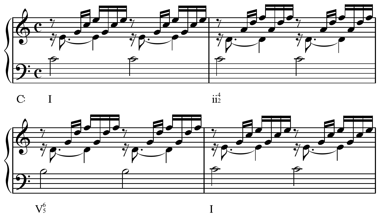 Johann Sebastian Bach – Well-Tempered Clavier, Book I, Prelude I, opening bars.